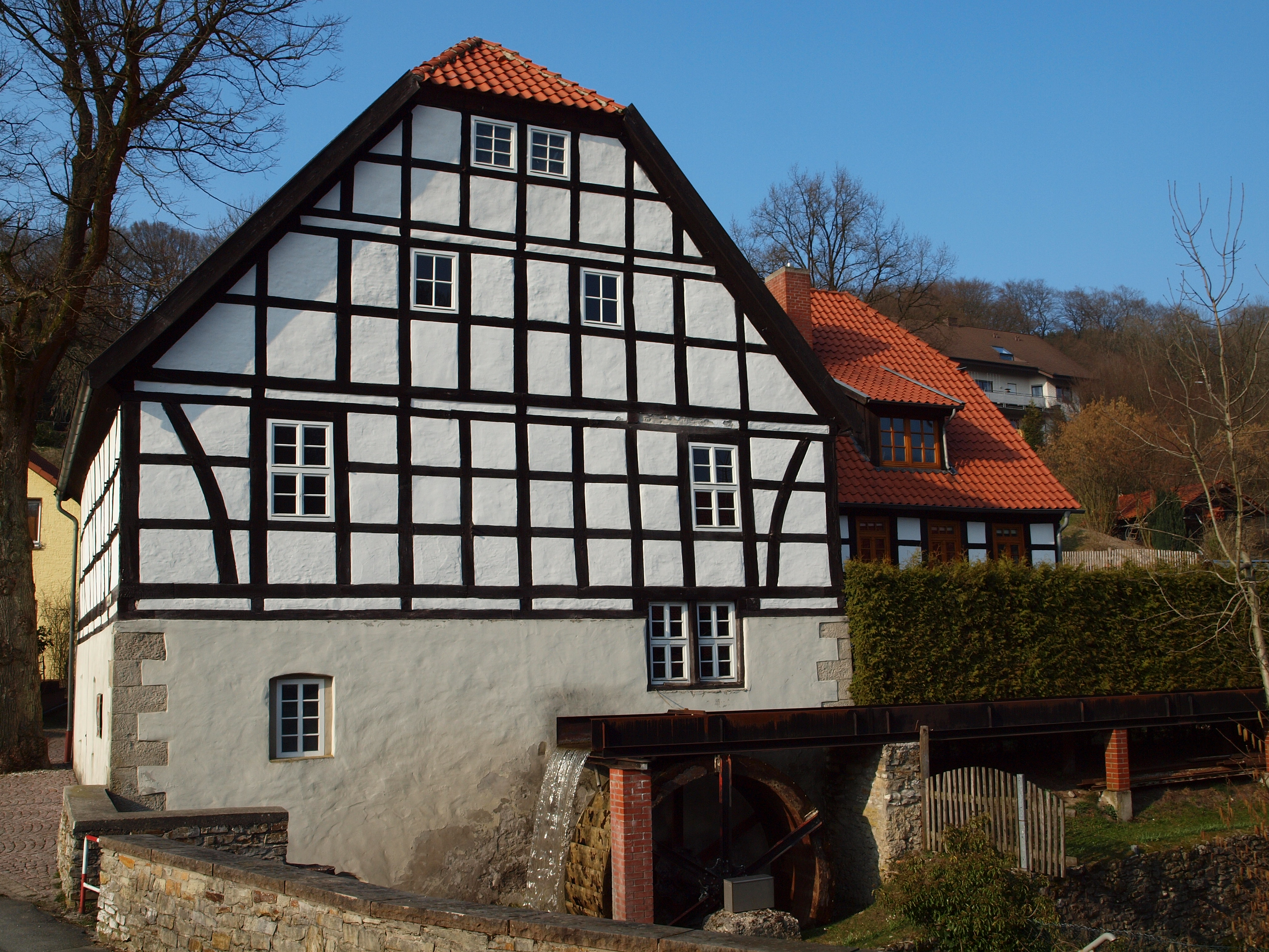 Starken mill in Kohlstädt